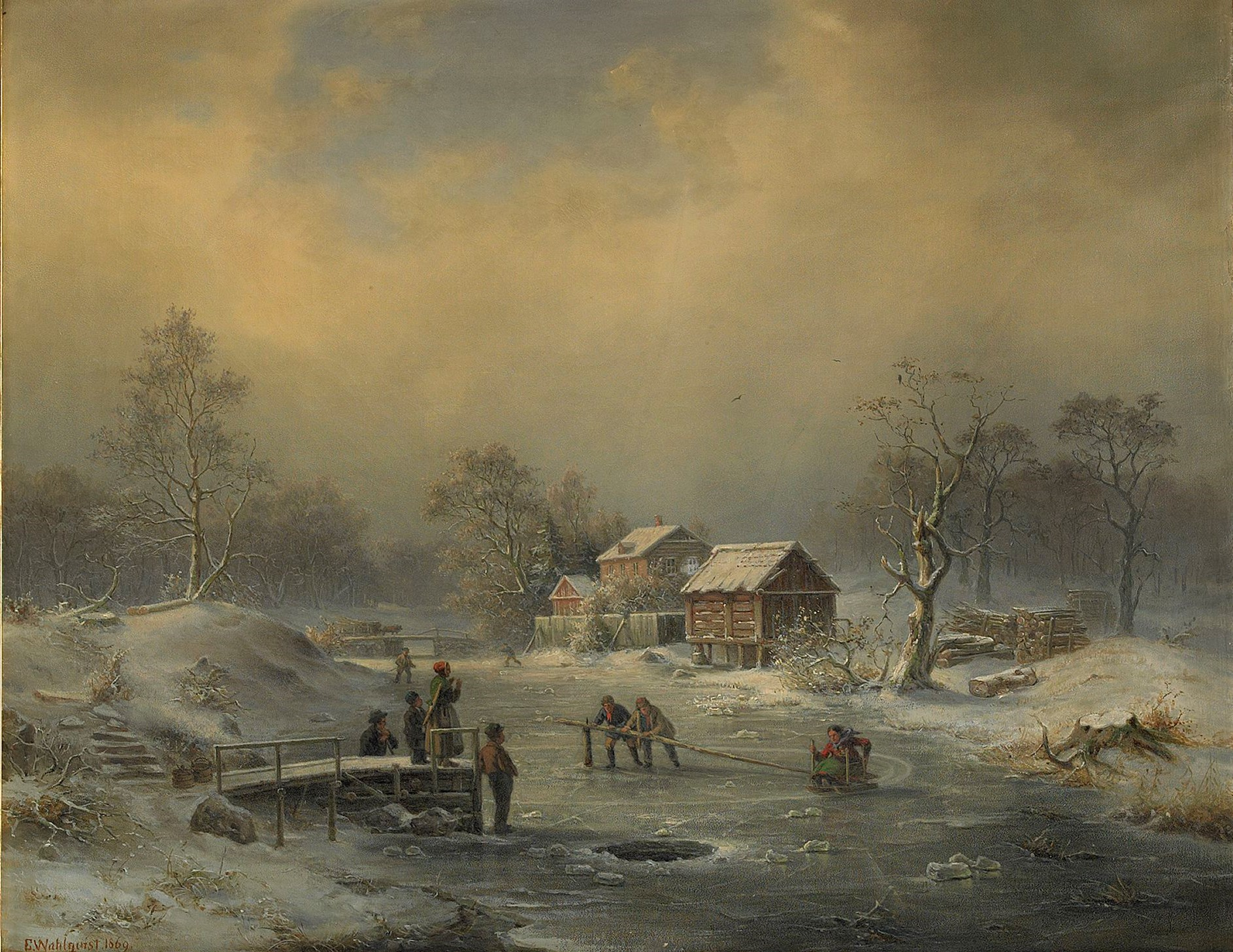 Ernfried Wahlqvist (1814-1895), Slängkälke, signerad och daterad 1869. Olja på duk, 64,5 x 82 cm.